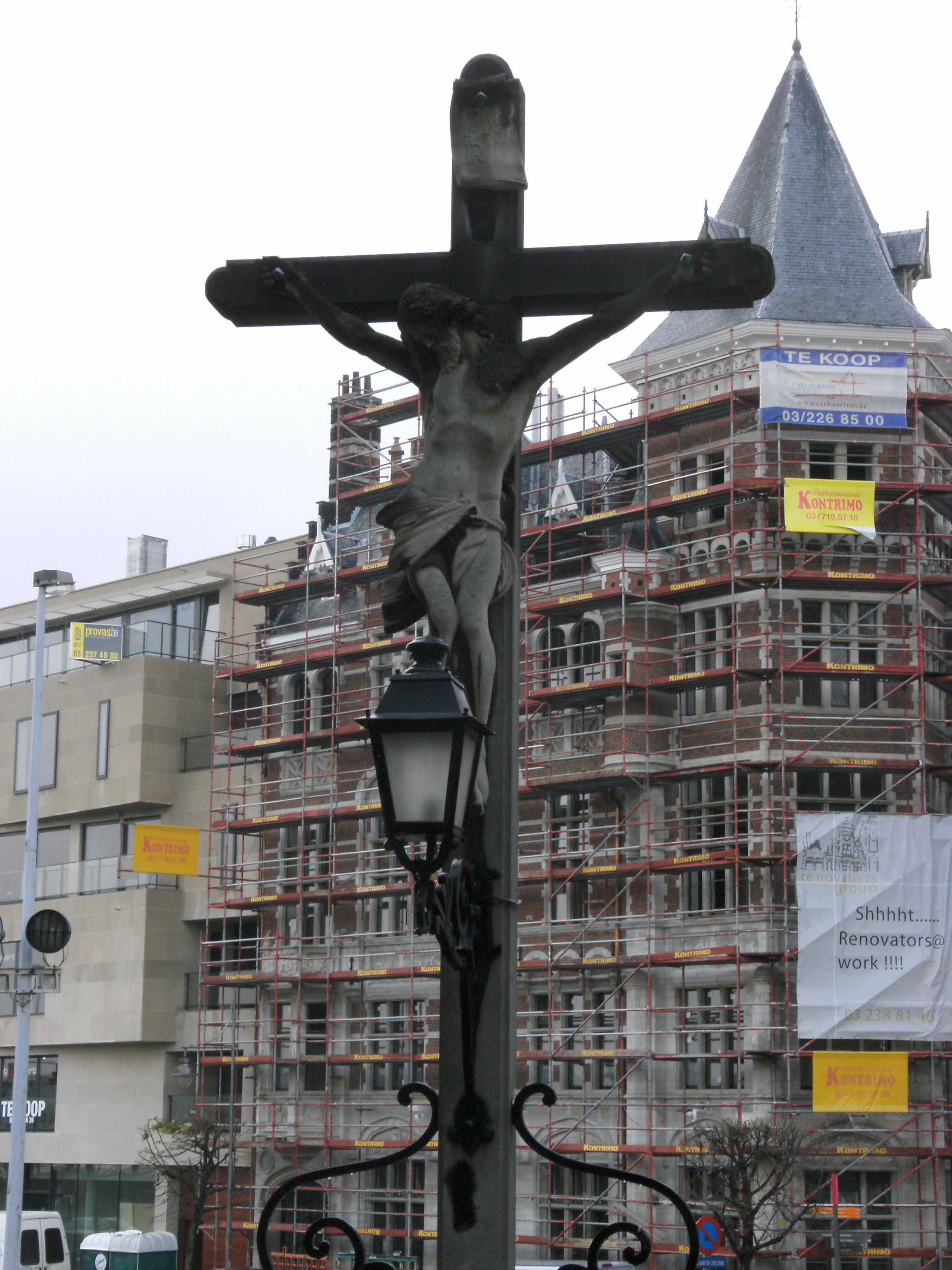 Crucifix at Het Steen Antwerpen.